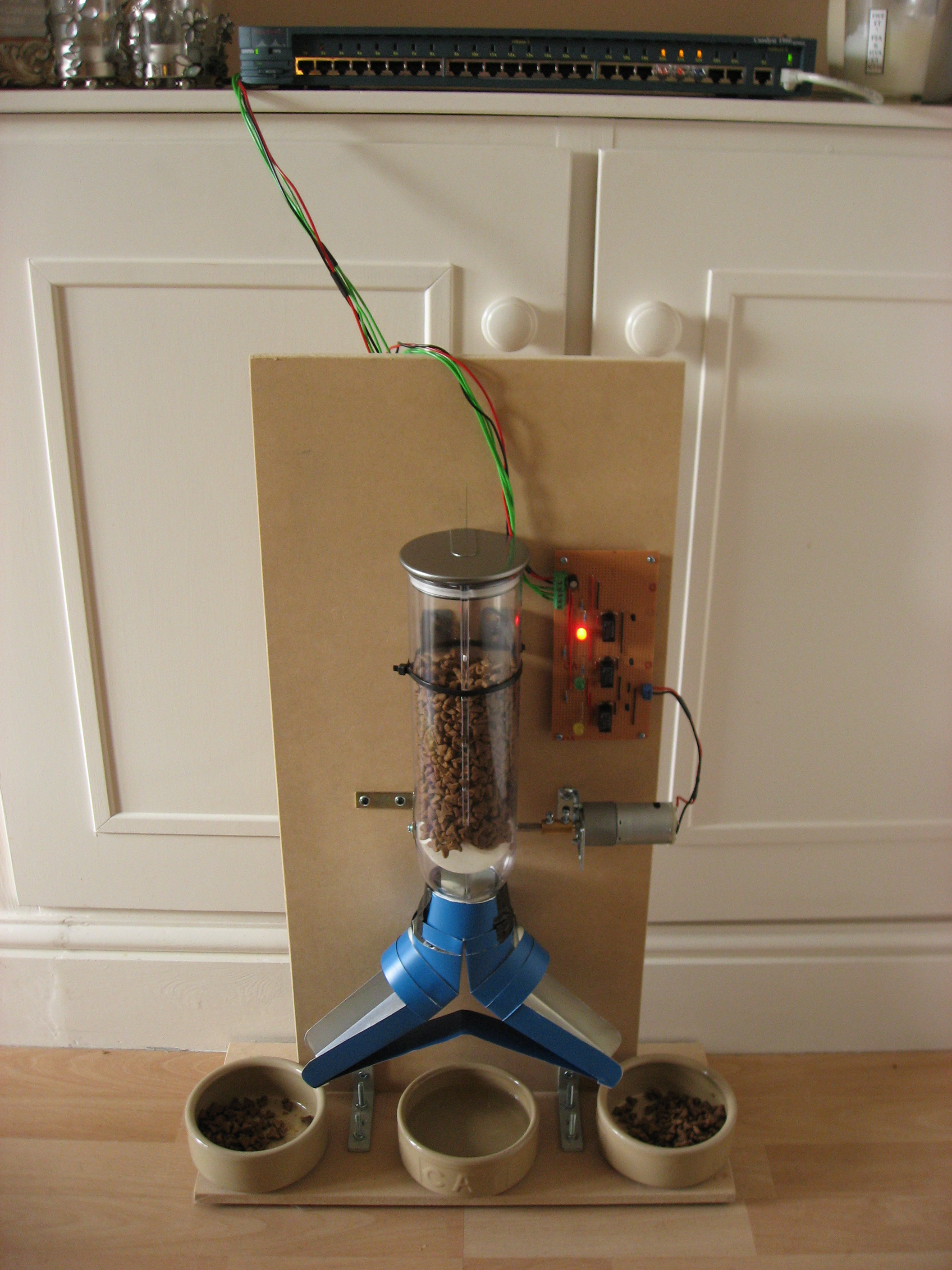 A homemade Internet-enabled cat feeder.